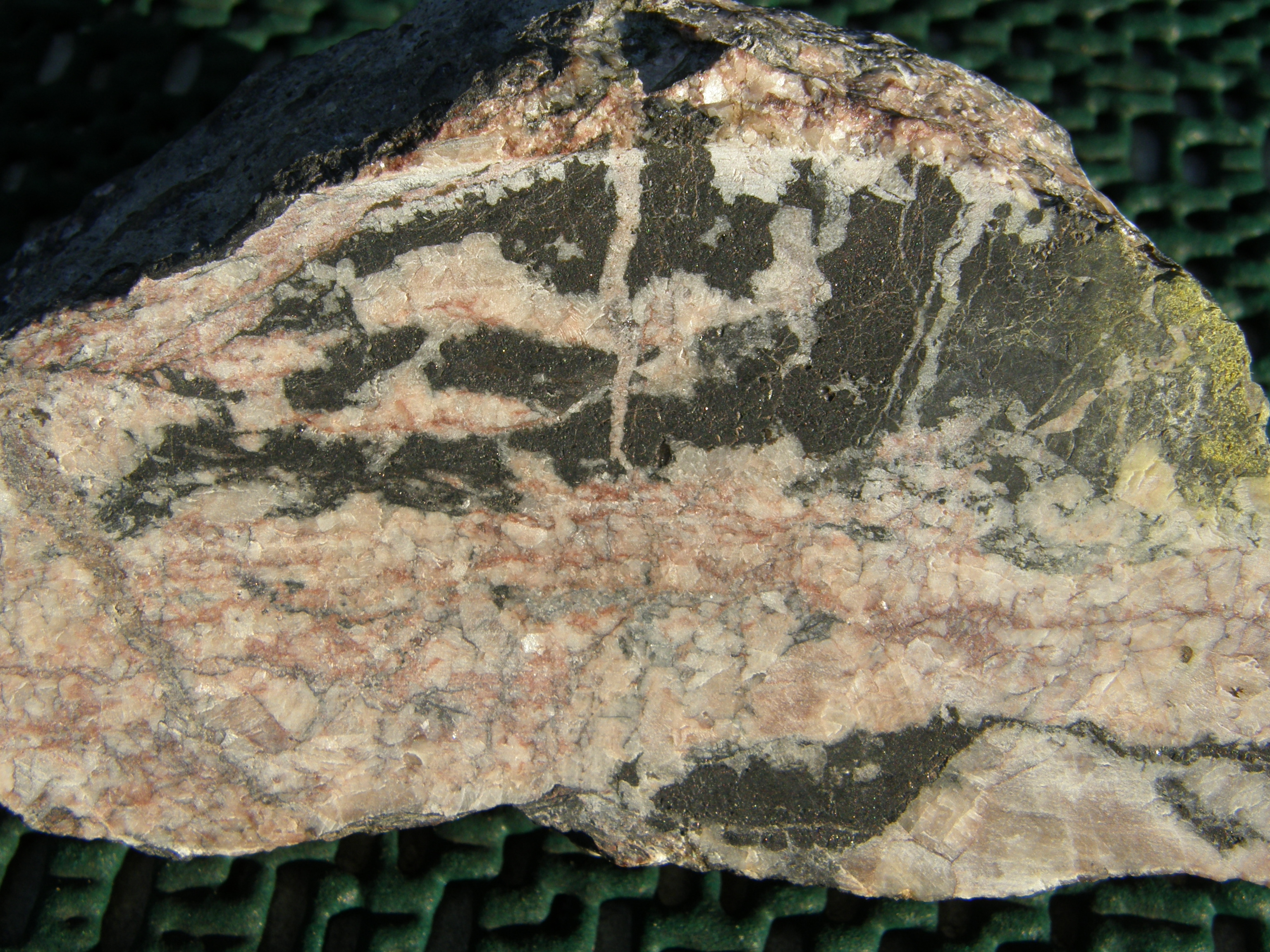 Uranium ore from the deposit Niederschlema-Alberoda (pitchblende (black) in dolomite (red)).